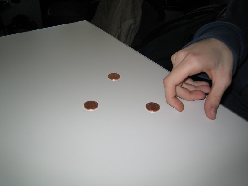 This photo shows the normal pinning-startup with three coins.